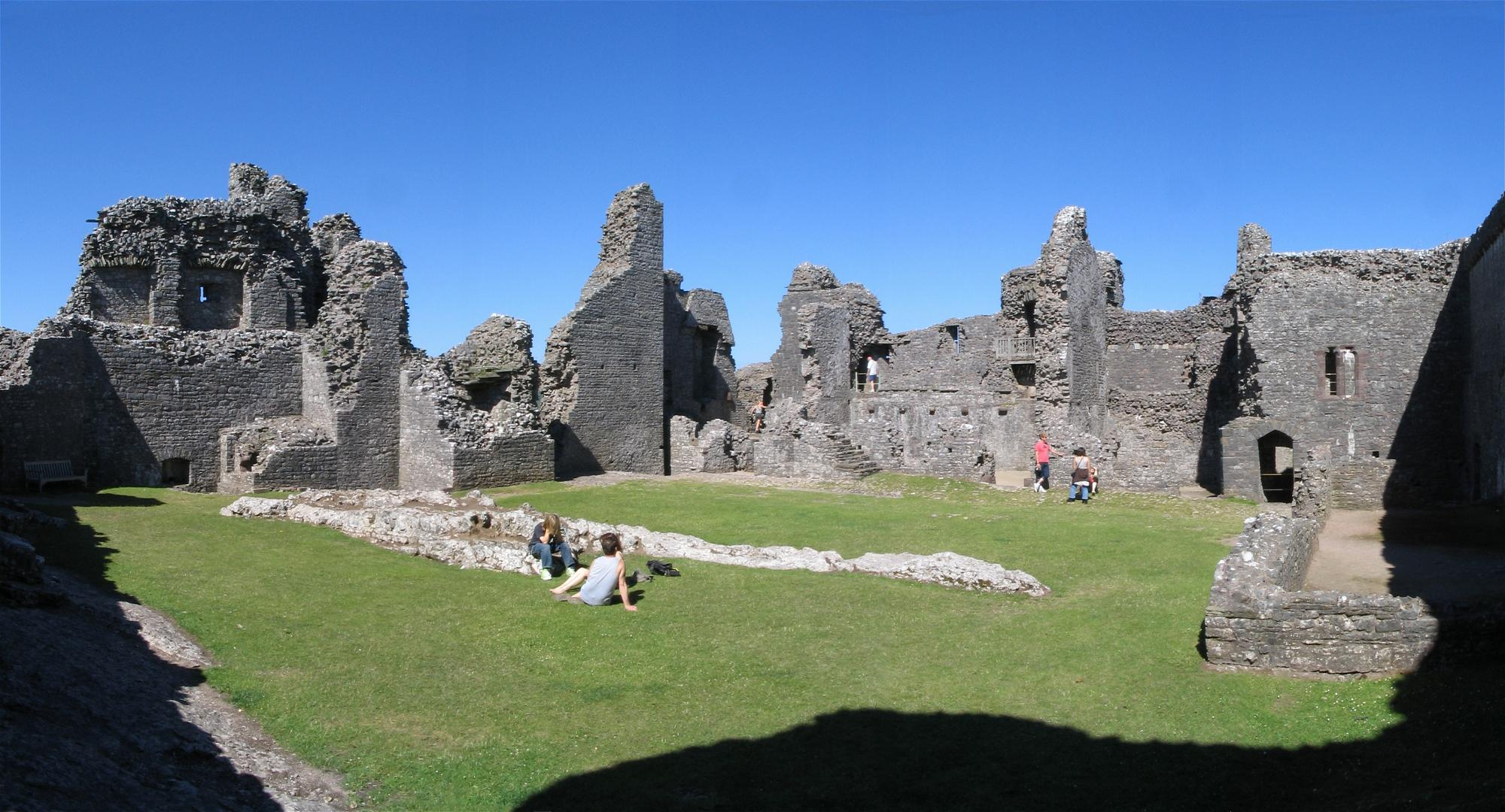 Interior of Carreg Cennen Castle. A panorama taken from the southwest corner, with the west wall on the left of shot and the south on the right. The main entrance is on the back wall, directly behind the people sitting down in the foreground. Obscured in the shadows in the far southeast corner is a tunnel leading down to a cave under the castle.